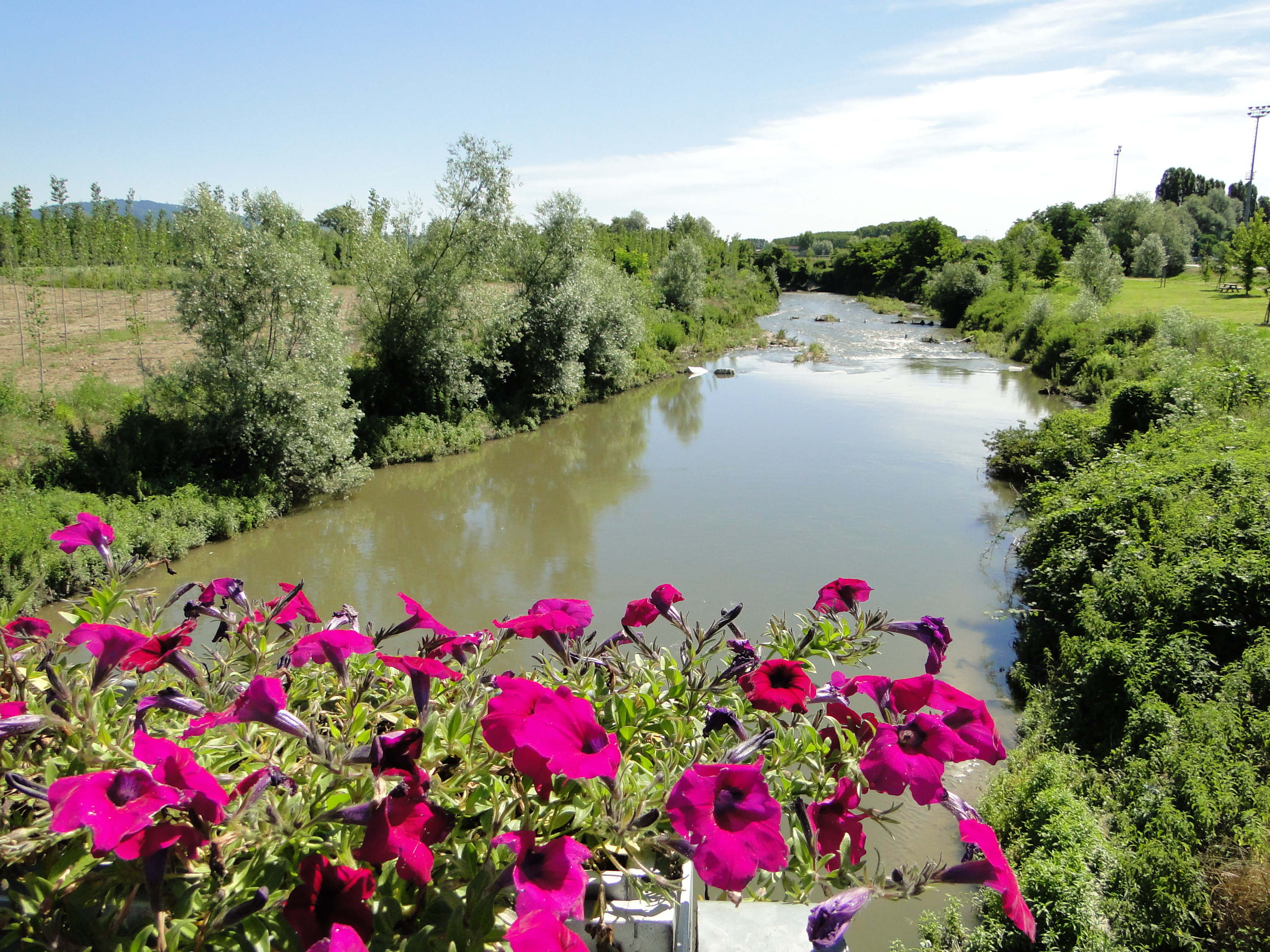 The river Chisola in Vinovo